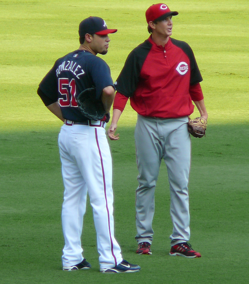 If used somewhere other than Wikipedia, Nelson, by name. 04:09, 20 September 2009 . . Chrisjnelson . . 825×940 (661 KB)